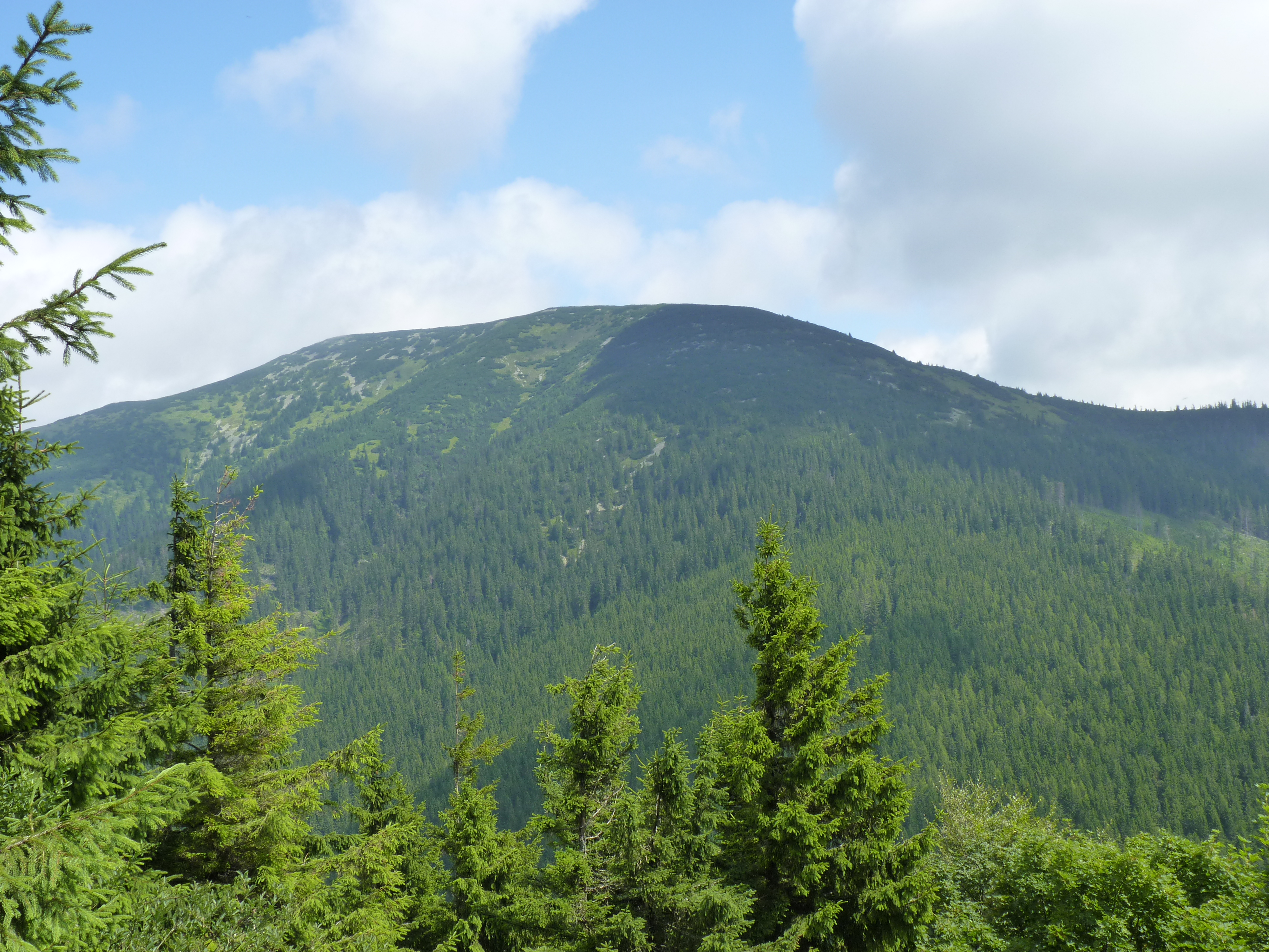 Nature reserve Kozí Chrbát. Low Tatras, Slovakia